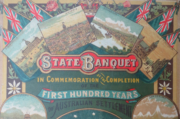 State banquet in commemoration of the completion of the first hundred years of Australian settlement